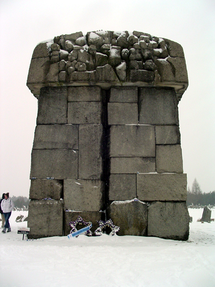 Memorial at Treblinka, German death camp in occupied Poland.